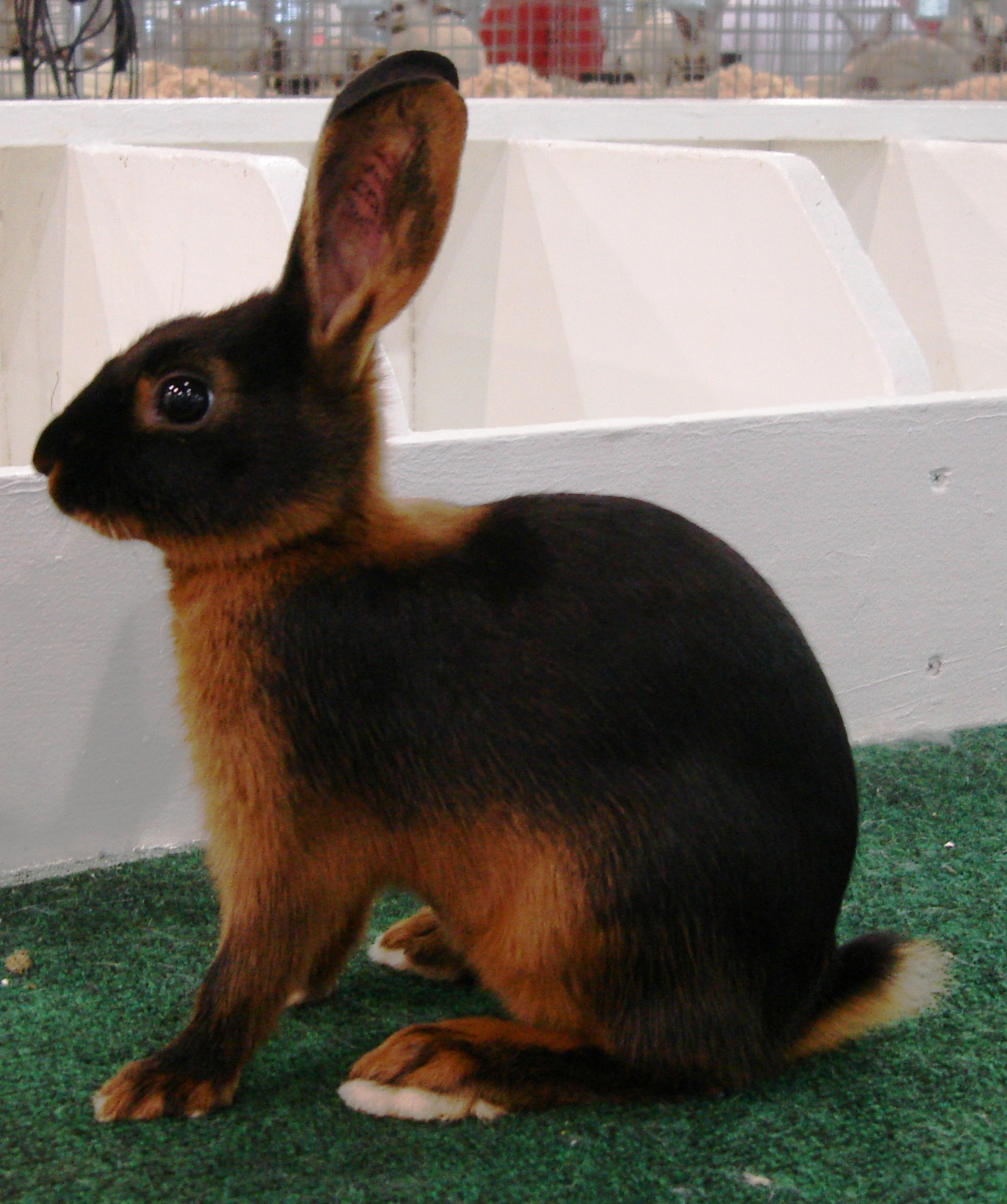 A Tan rabbit (black) owned by Kelly Flynn of Blue Ribbon Rabbitry